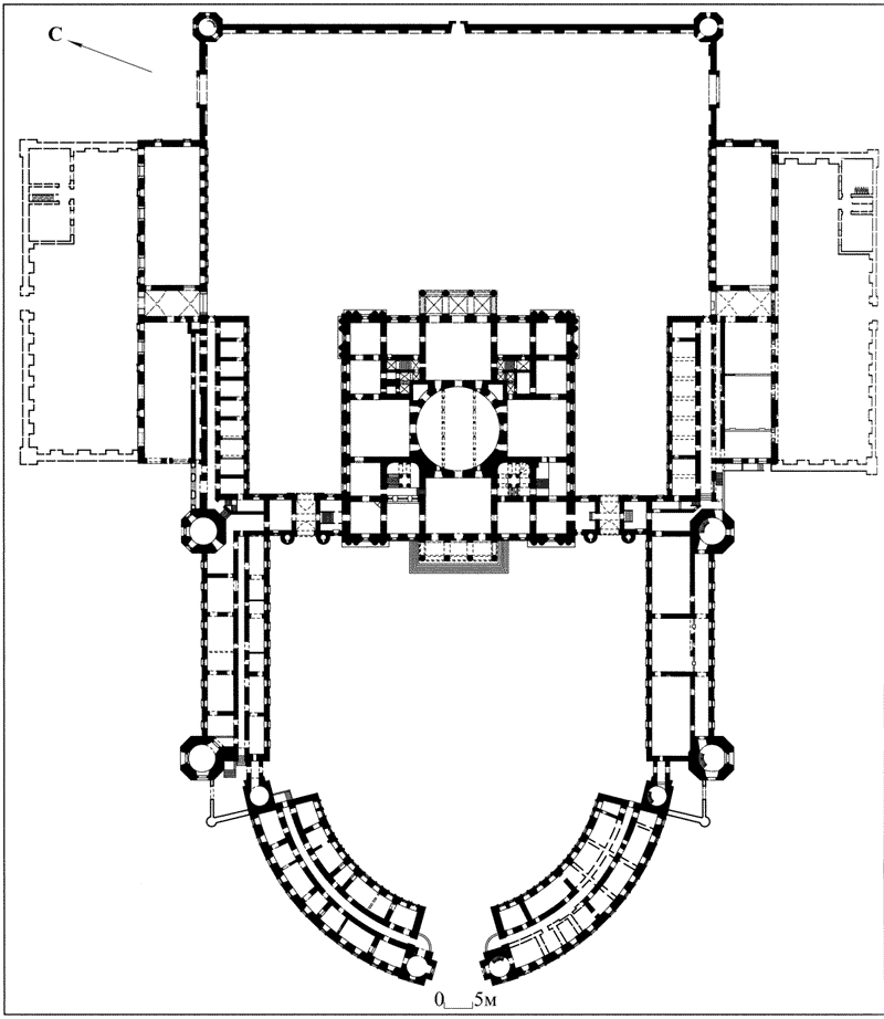 Petrovsky Palace, Moscow, Russia - plans after 1830s rebuild.